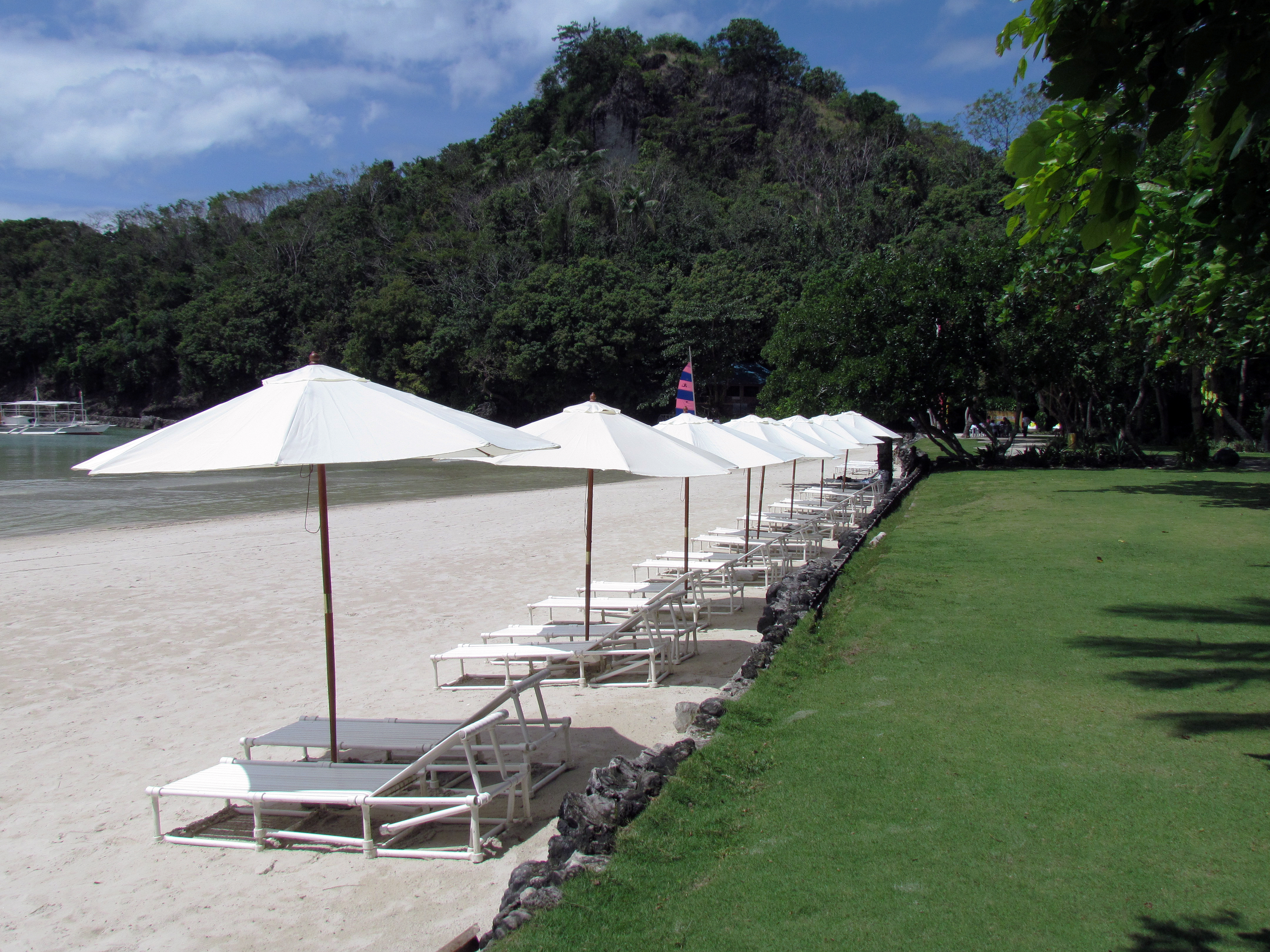 Beautiful Dakak Beach Resort in Barangay Taguilon, City of Dapitan, Zamboanga del Norte, Philippines. Photo by Jose B. Cabajar